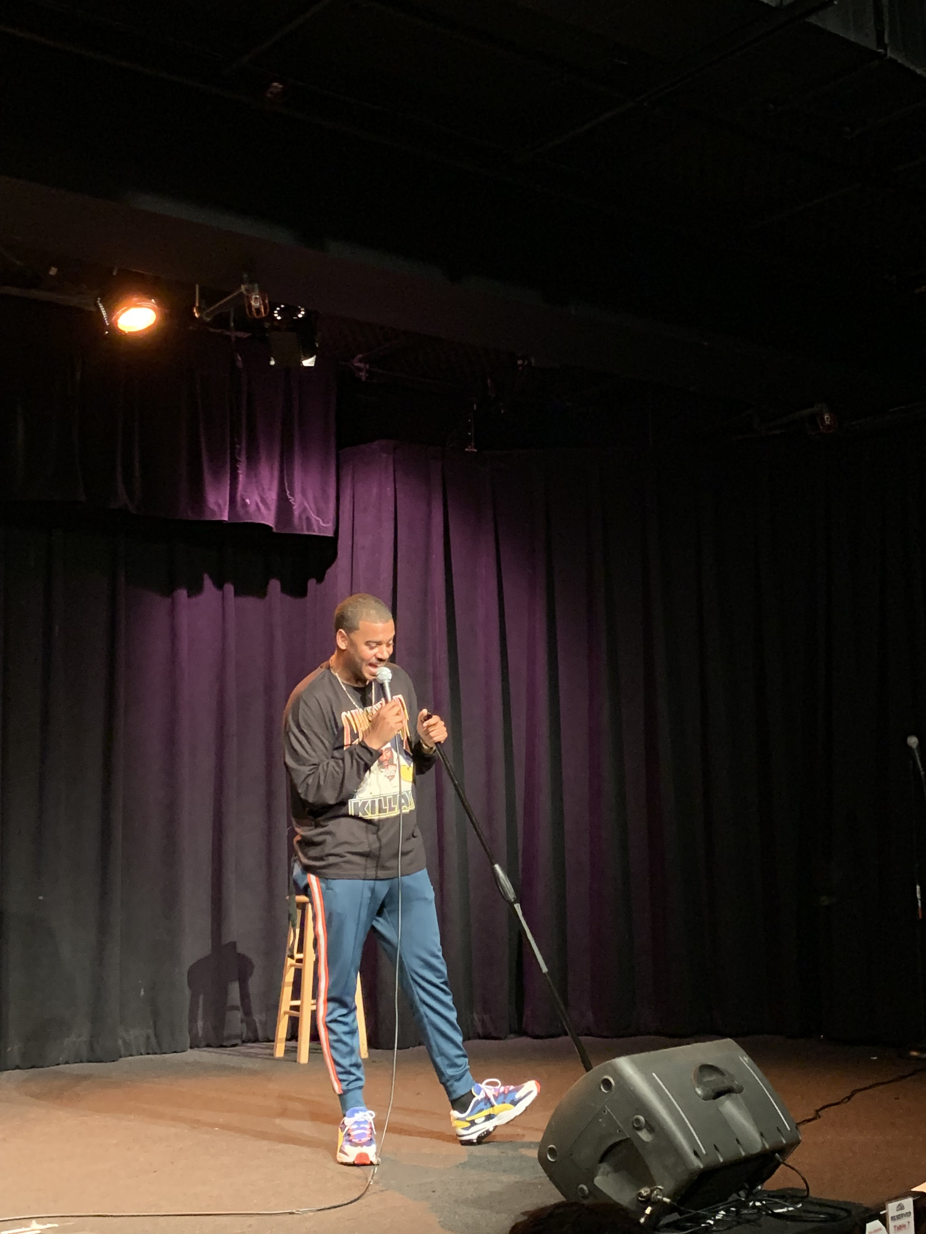 Zack Fox performing stand up in July 2019 at Cobbs Comedy Club in San Francisco, CA.